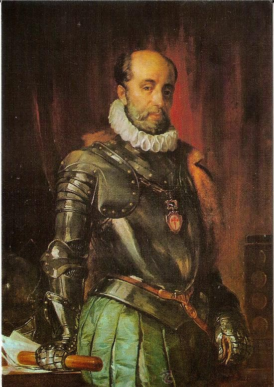 Portrait of Spanish admiral Luis de Requesens y Zúñiga